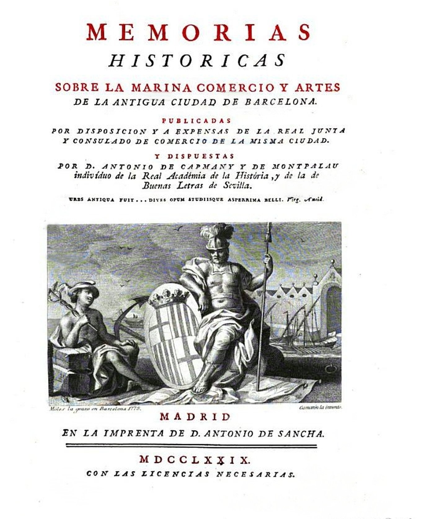 Front page of the 1779 edition of the book: Memorias históricas sobre la marina, comercio y artes de la antigua ciudad de Barcelona. Publicadas por disposicion y a expensas de la Real Junta y Consulado de Comercio de la misma ciudad y dispuestas por Antonio de Capmany y Montpalau